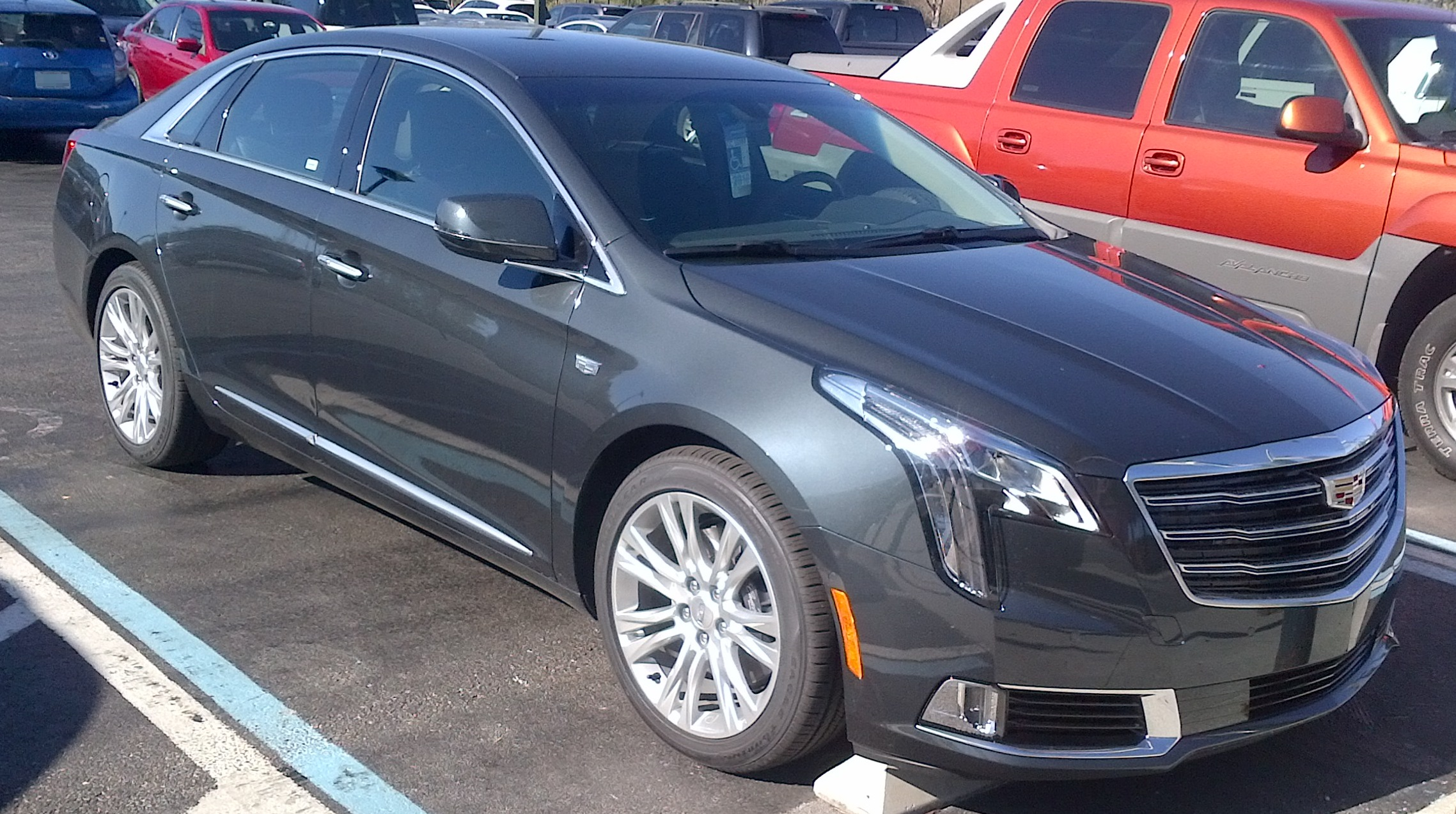 2018 Cadillac XTS photographed in Lake Buena,Vista , Florida, USA.